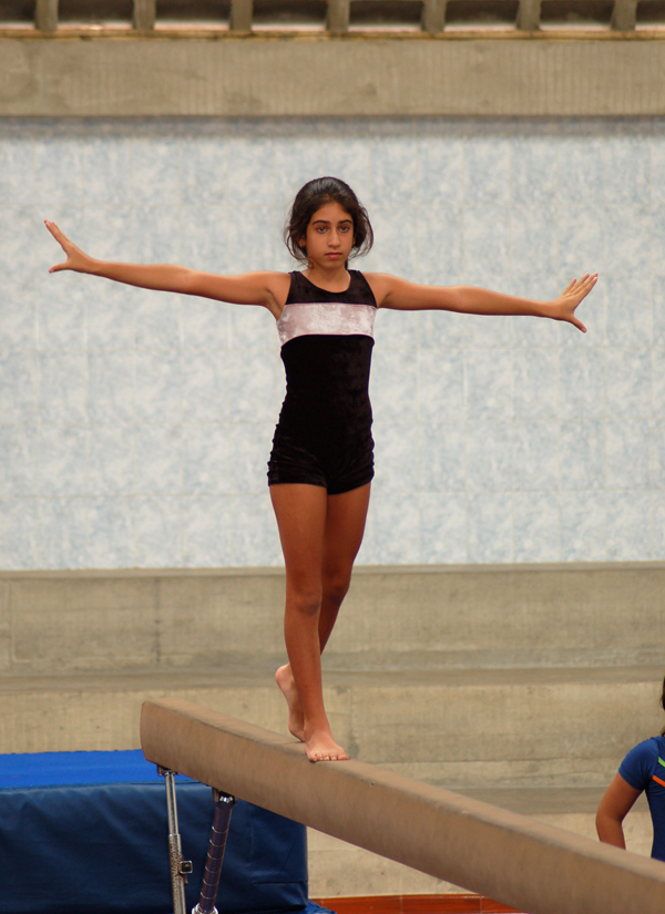 Practice on balance beam